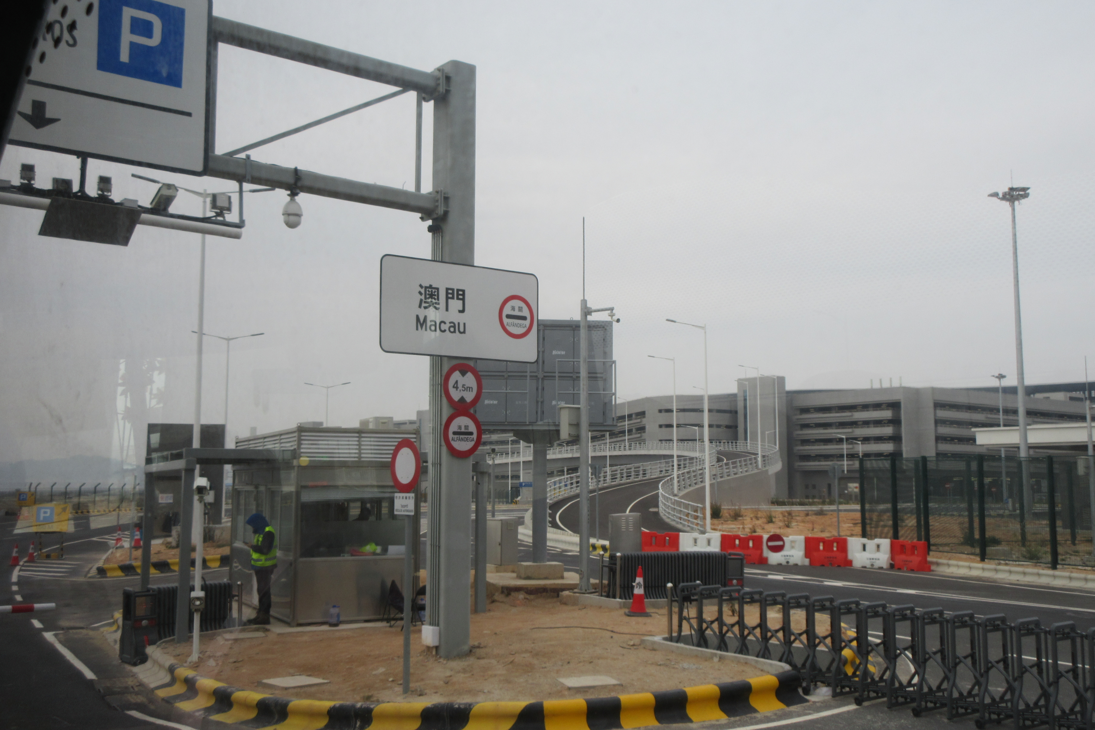 GD 廣東省 Guangdong 珠江三角洲 Pearl River 港珠澳大橋 HK-Zhu-Macau bridge in January 2019